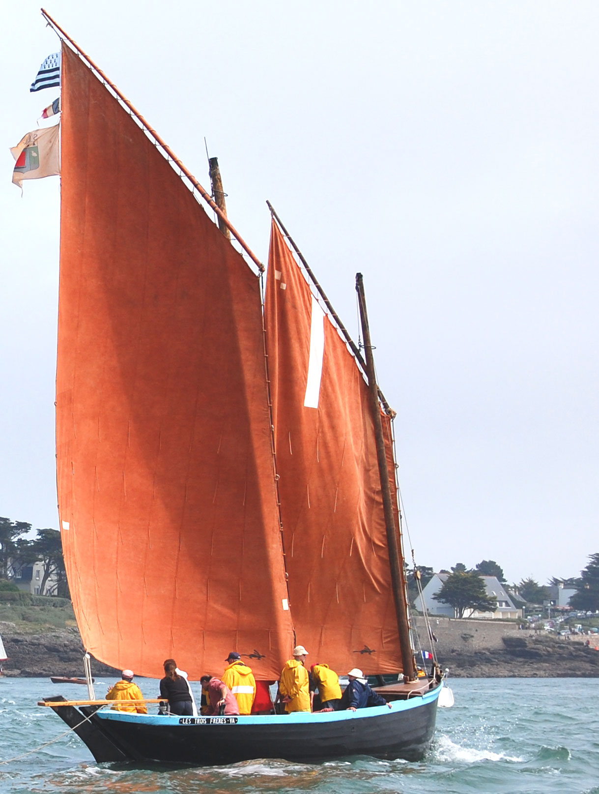 France, Morbihan, Morbihan's gulf, sinagot